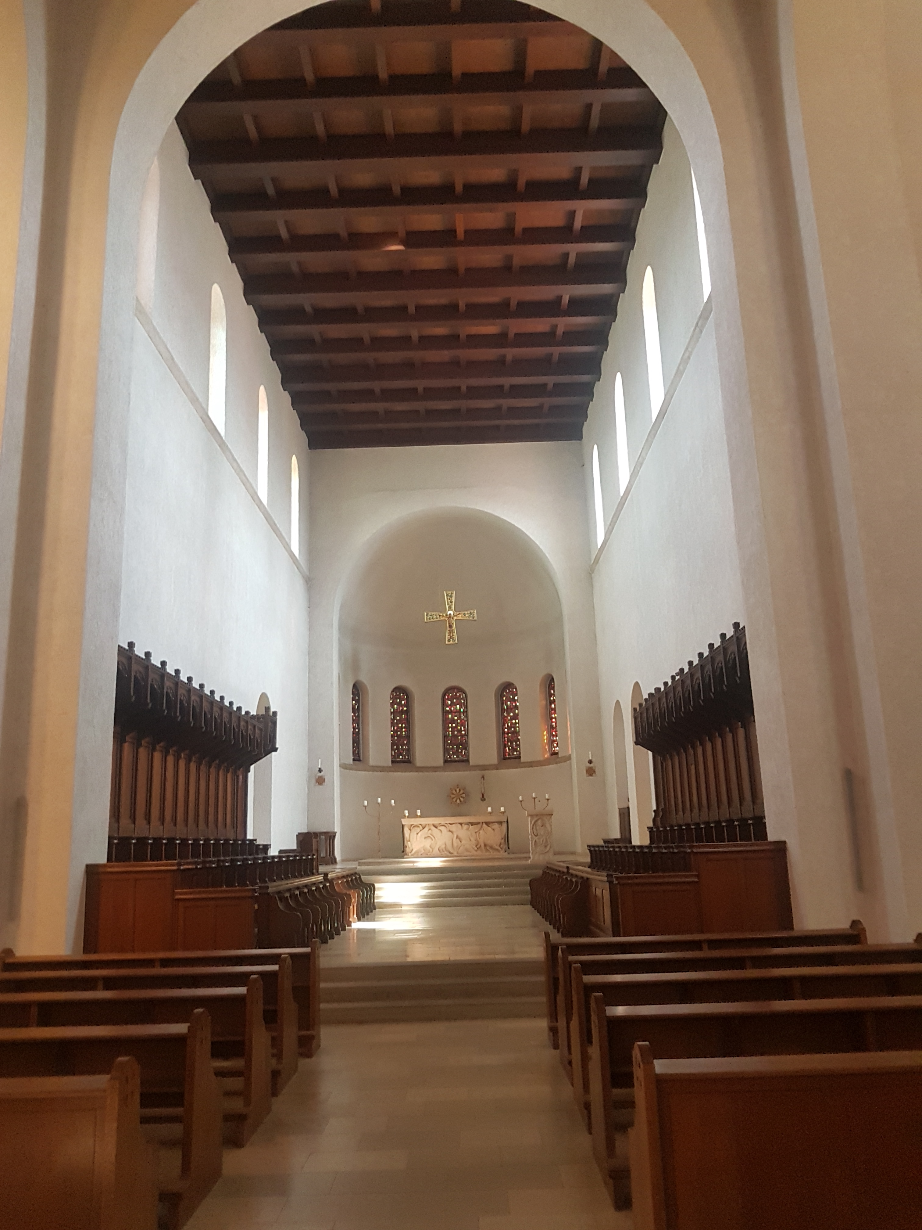 Clervaux Abbey - Interior.